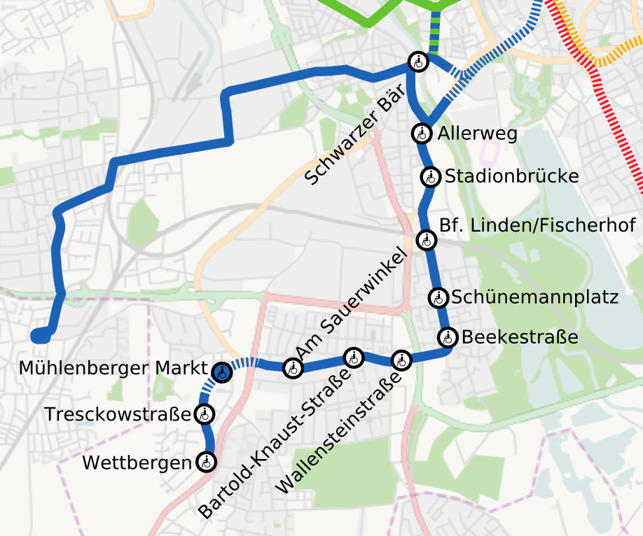 Light rail of Hannover, Germany. A South